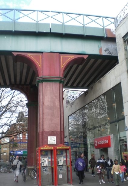 Brixton Railway Bridge, Brixton Road SW9